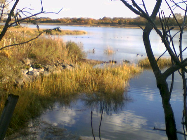 The colorful autumn in Salt Marsh nature Center of Brooklyn.